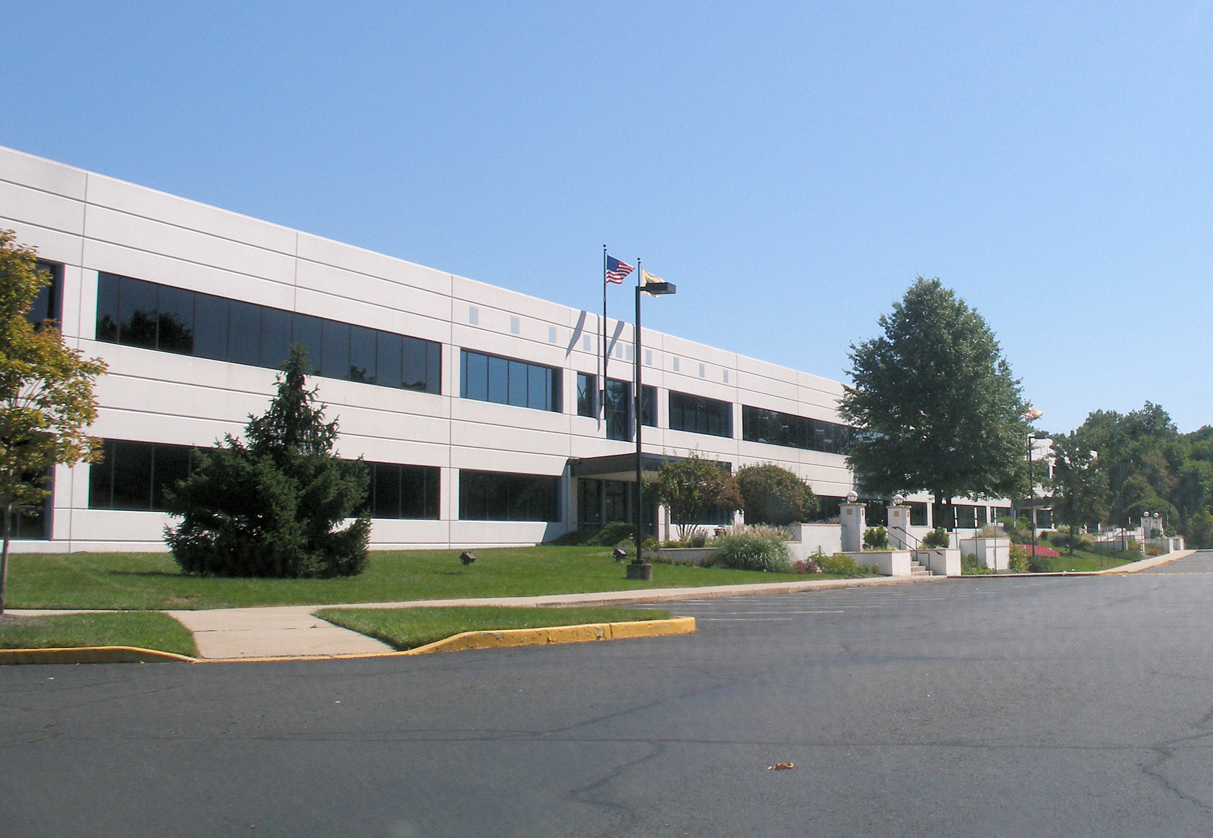 The headquarters of GS1 US in the west wing of 1009 Lenox Drive, Lawrenceville.